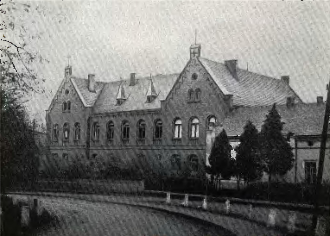 Geschichte der Stadt Zülz in Oberschlesien